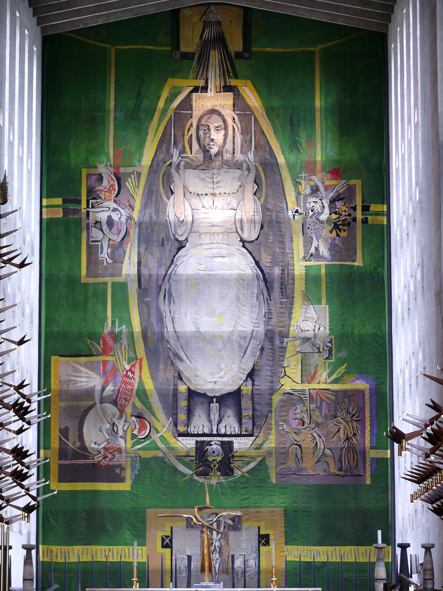 Christ in Glory, Graham Sutherland tapestry, in Coventry Cathedral, Coventry, England.